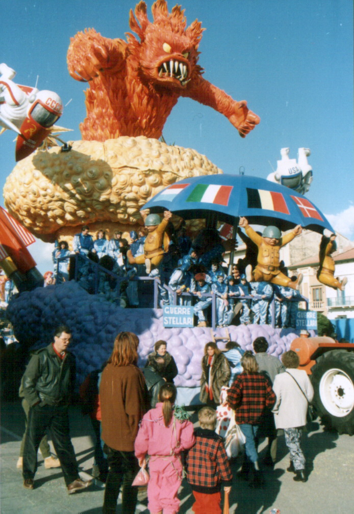 Corso Carnival of Viareggio 1986, figure referring to SDI Initiative of Reagan Administration